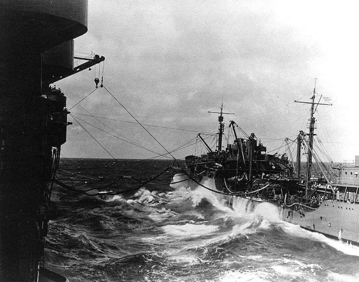 The U.S. Navy fleet oiler USS Neosho (AO-23) refueling the aircraft carrier USS Yorktown (CV-5), 1 May 1942, shortly before the Battle of Coral Sea